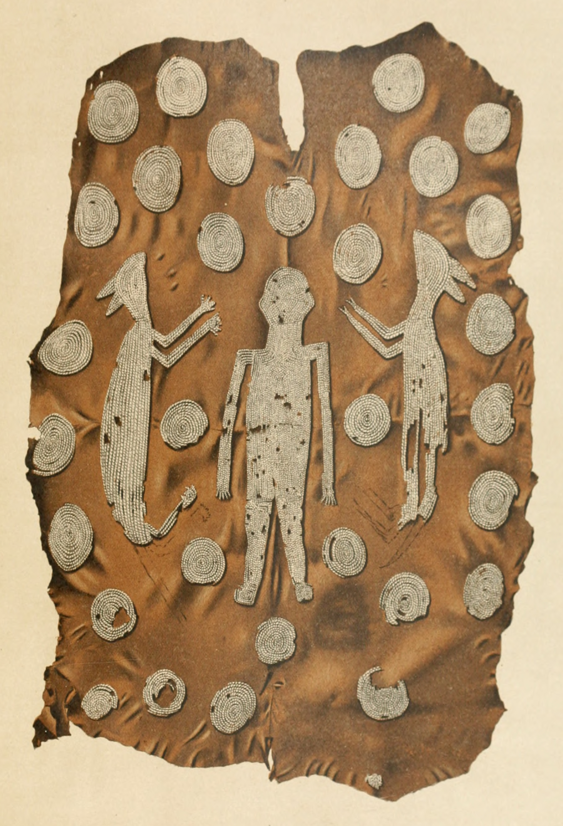 Lithography of Powhatan's mantle, Ashmolean Museum, Oxford, 1888. Image cropped from plate XX of Edward B. Tylor, “Notes on Powhatan’s Mantle, Preserved in the Ashmolean Museum, Oxford.” Internationales Archiv für Ethnographie, volume 1 (1888), pages 215-217